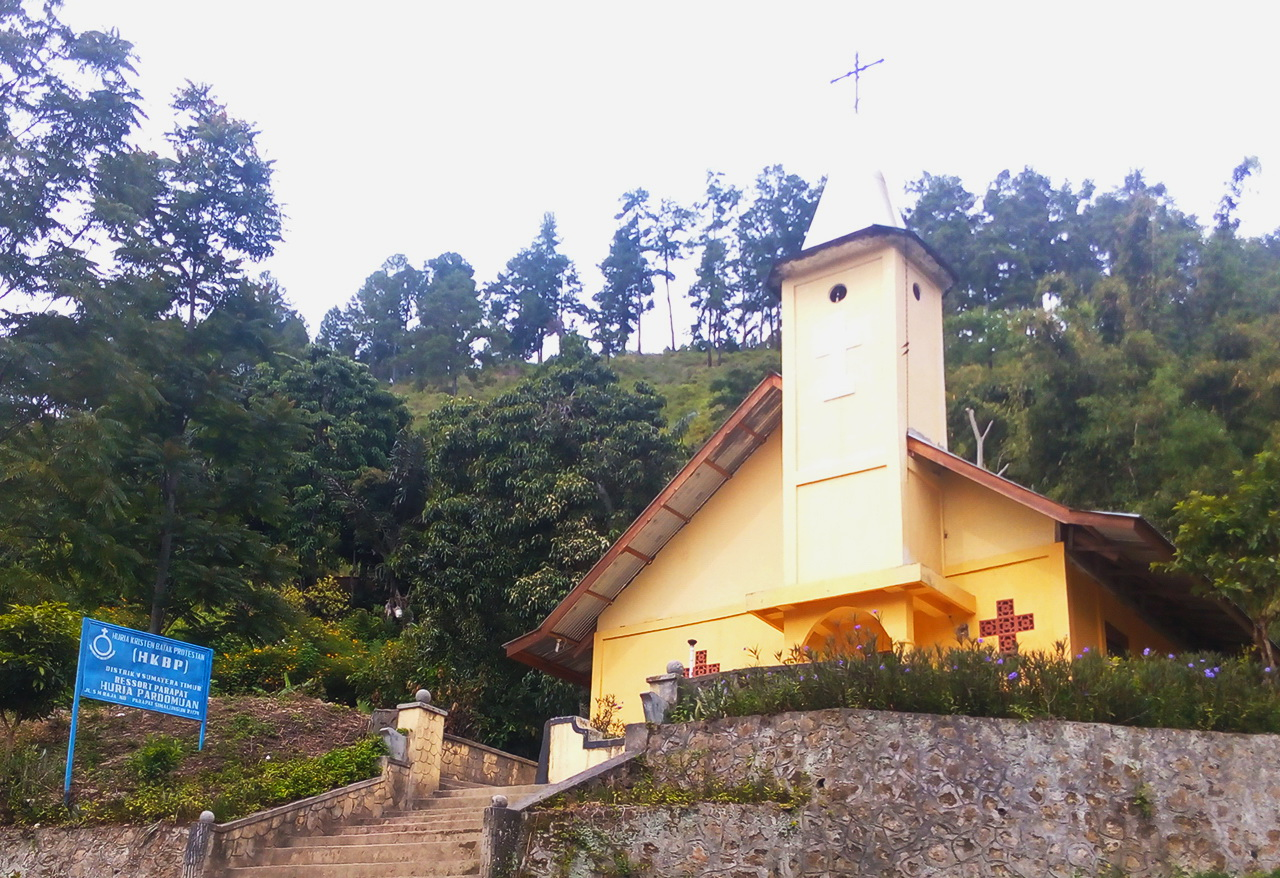 HKBP Pardomuan, Church in Girsang SIpangan Bolon, Simalungun